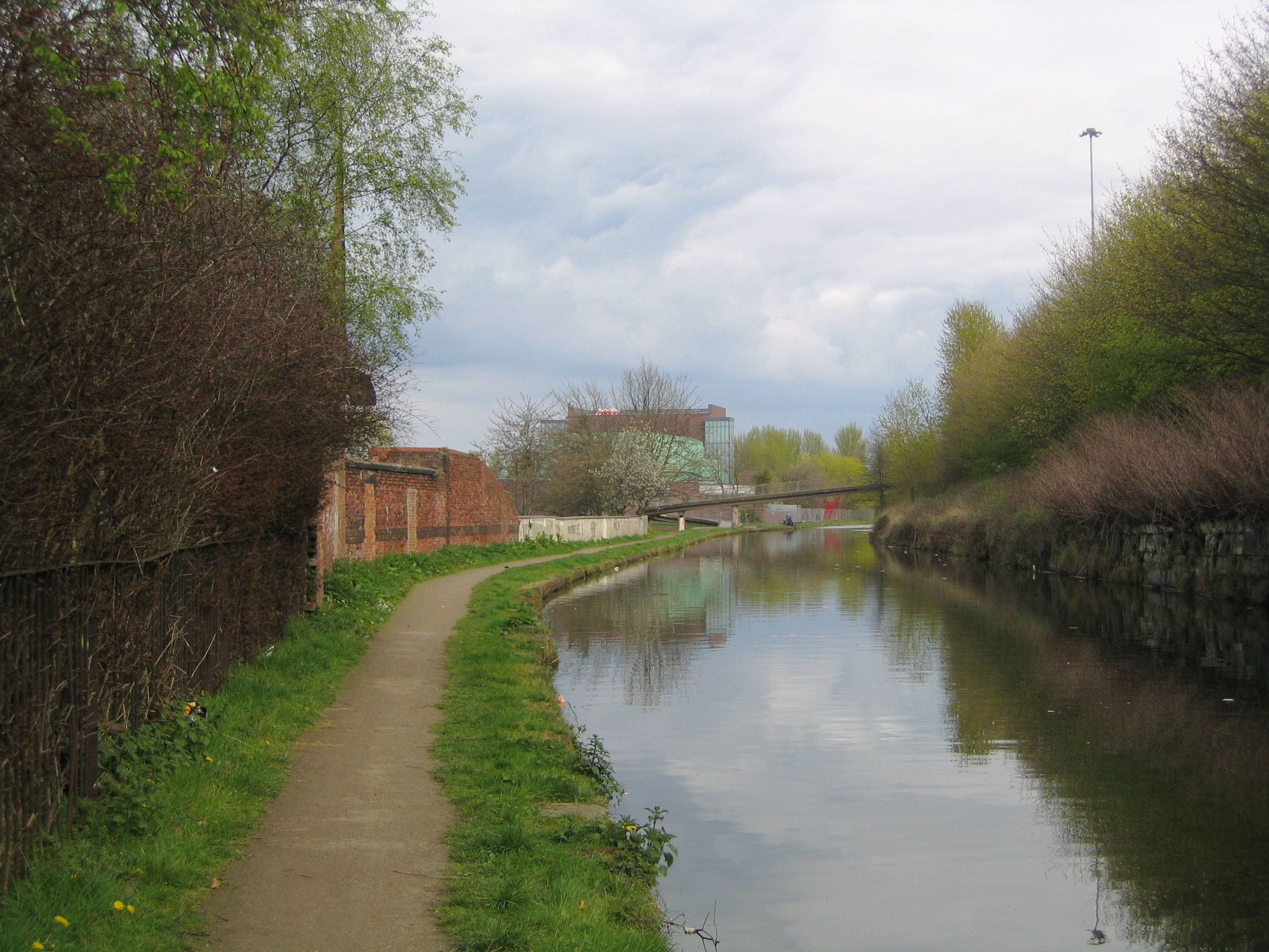 Photograph taken by me in April 2004. In the distance can be seen the Brindley, Runcorn's theatre and arts centre.